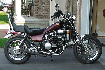 I am the author of the file. This is my bike.